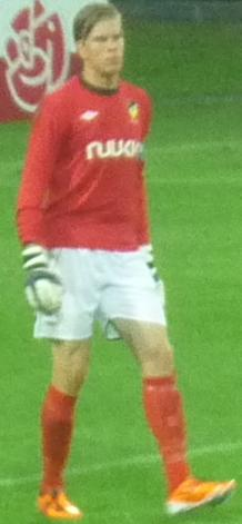 Tomi Maanoja in 2011 playing for FC Honka